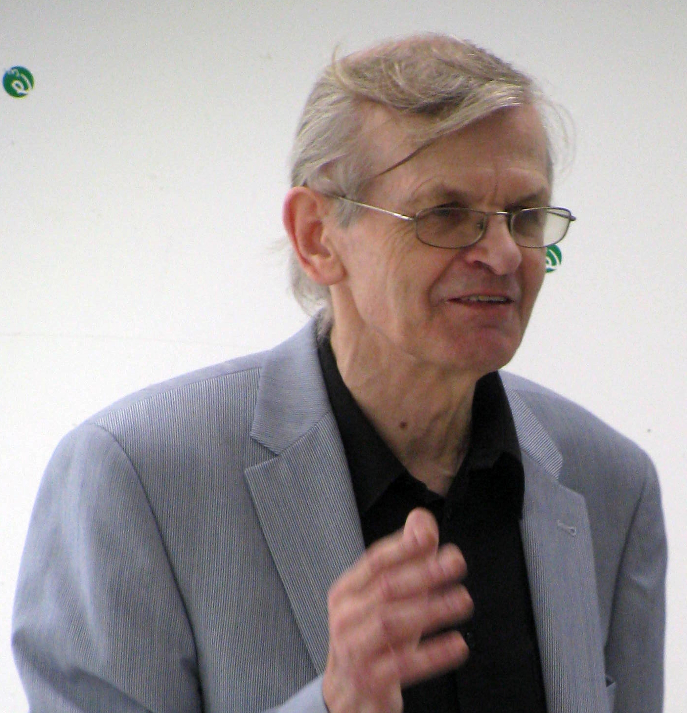 Ülo Matjus esinemas Eesti filosoofia 7. aastakonverentsil Tartus